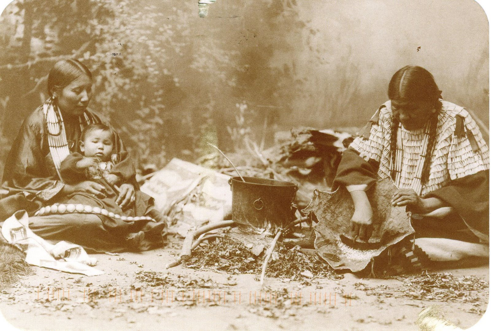 The Sioux Indian women of the Teton or Western Dakota tribe sustained and perpetuated village life using their agricultural and domestic skills. Among the Dakota women's many skills were porcupine quill work and bead embroidery. They also performed such essential tasks as dressing hides for clothing and shelter, caring for the children and cooking.